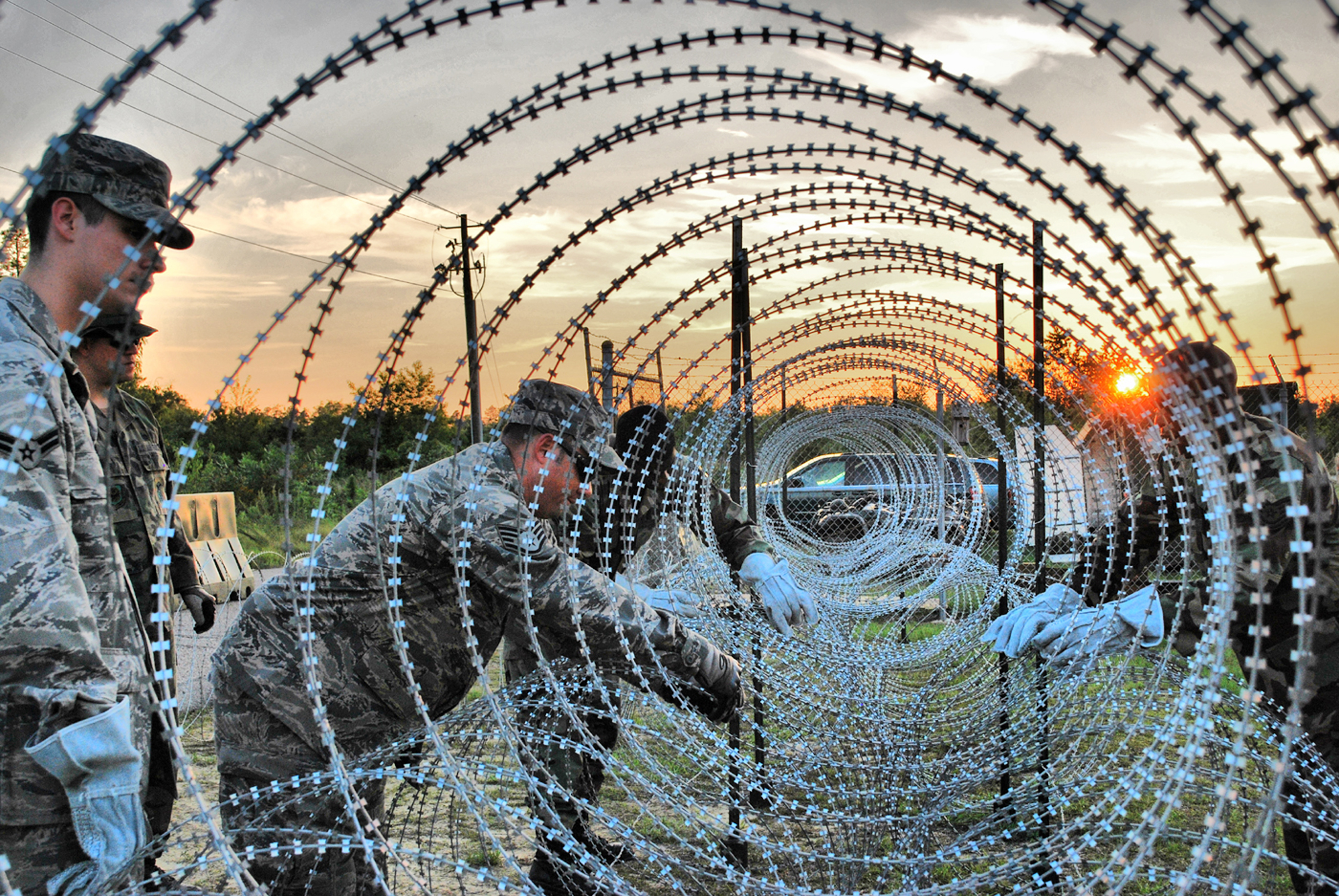 Airmen from the 621st Contingency Response Wing at McGuire Air Force Base, New Jersey, construct razor wire fences around their camp perimeter June 24 during a noncombatant evacuation exercise at Mackall Army Airfield, North Carolina. CRW Airmen manned defensive fighting positions as the exercise scenario became "hostile."